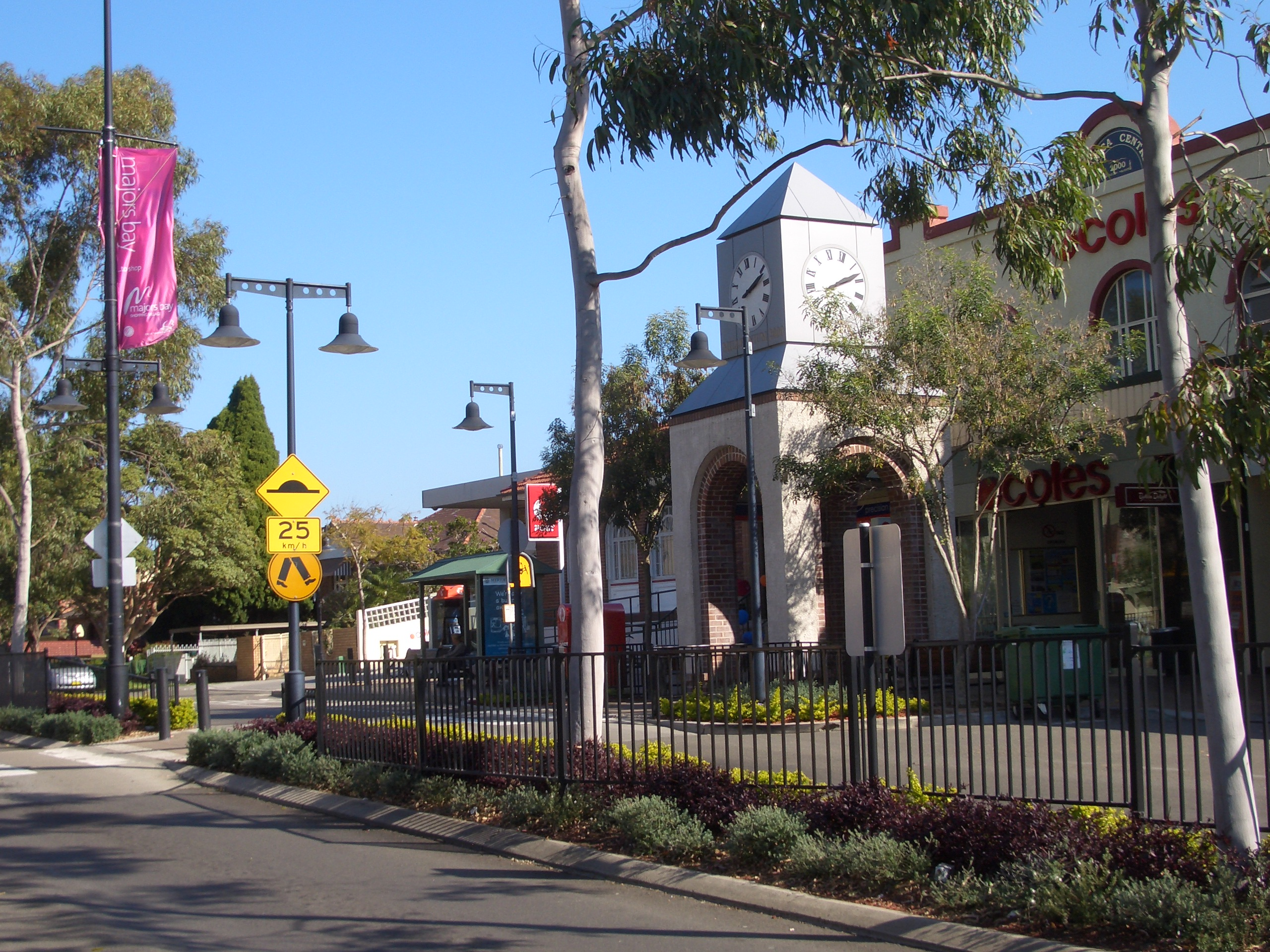 Majors Bay Road, Concord